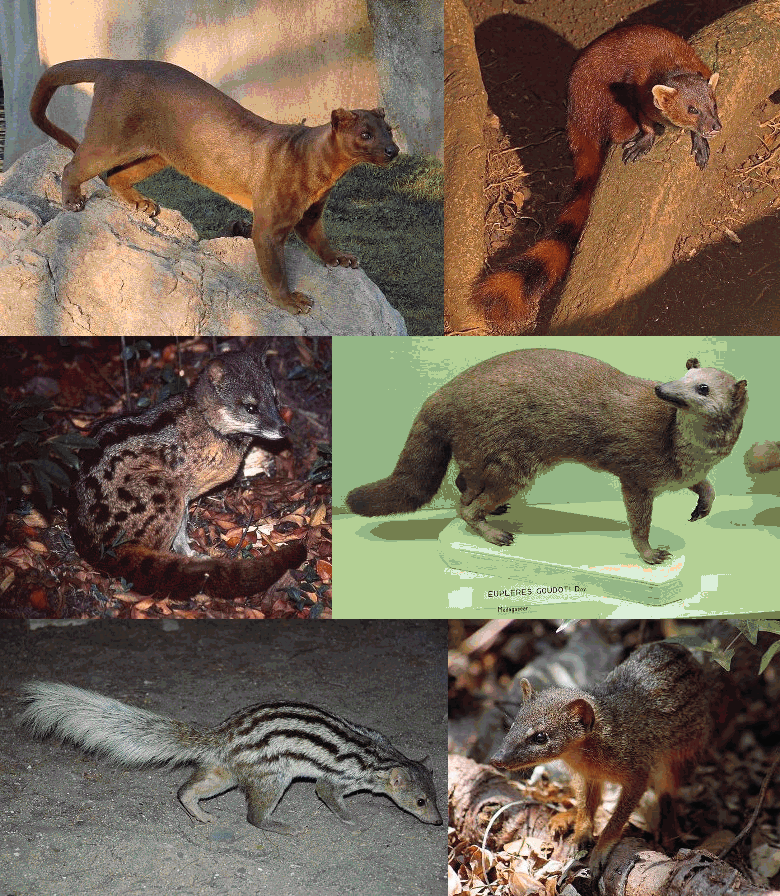 Species from family Eupleridae